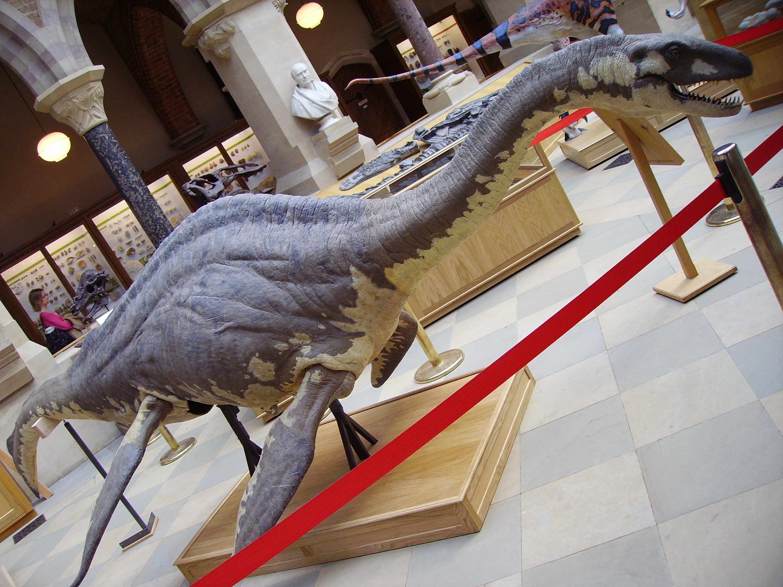 Cryptoclidus model which was used in the Channel Five TV programme "Loch Ness Monster: The Ultimate Experiment", OUMNH